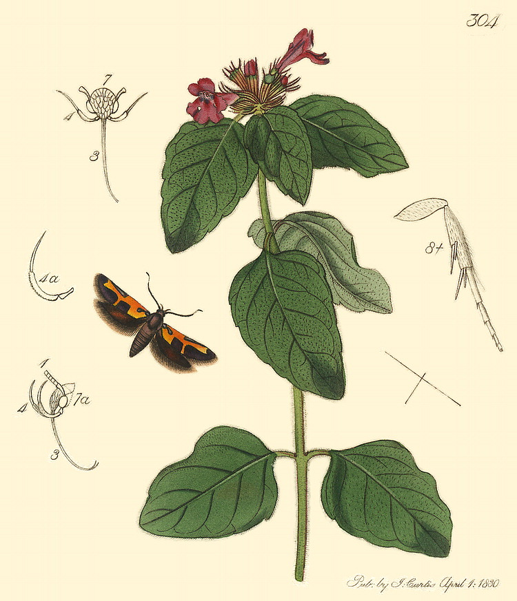 Manchester Tinea a plate from British Entomology by John Curtis.